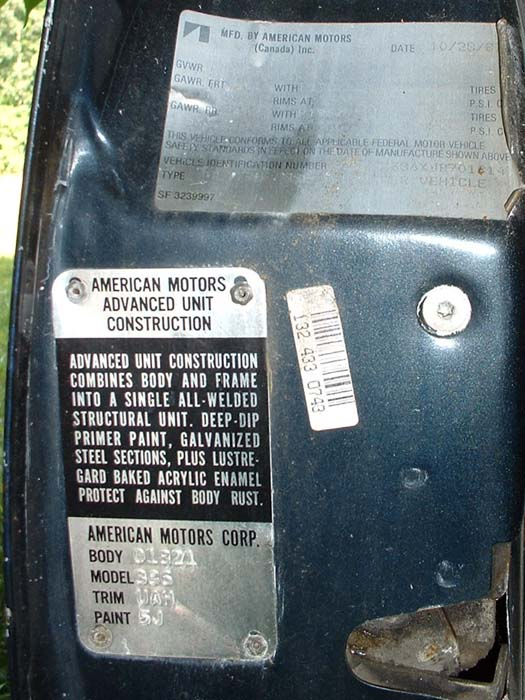 Photo of the plaques on the driver's door of my 1988 AMC Eagle. Note the words "Mfd. by American Motors (Canada ) Inc."